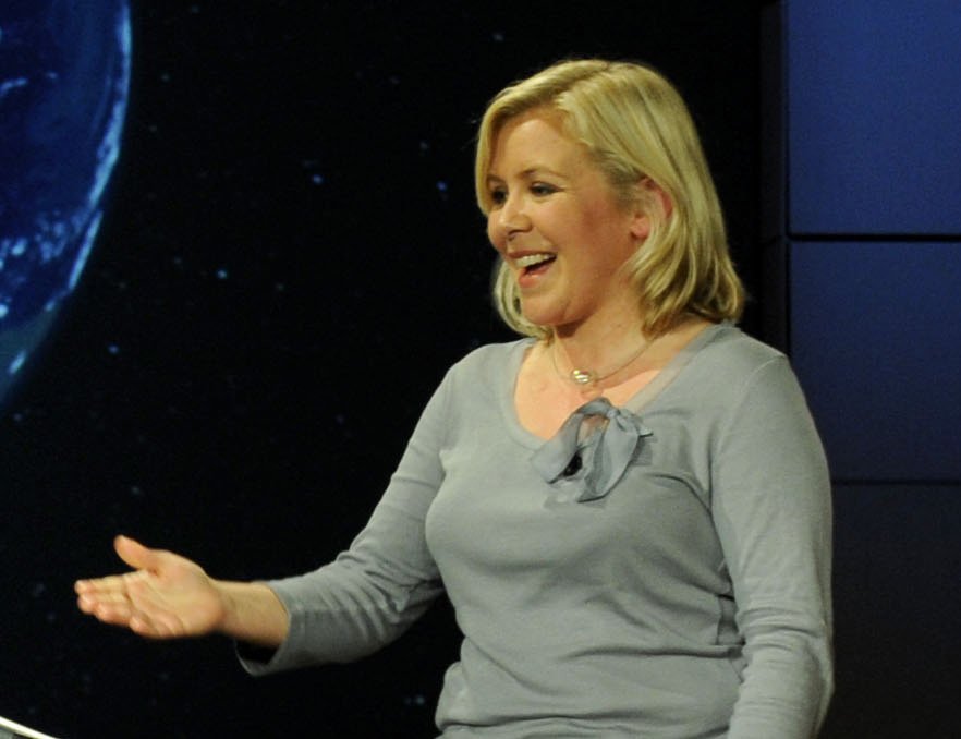 Author and educator Lucy Hawking in 2008